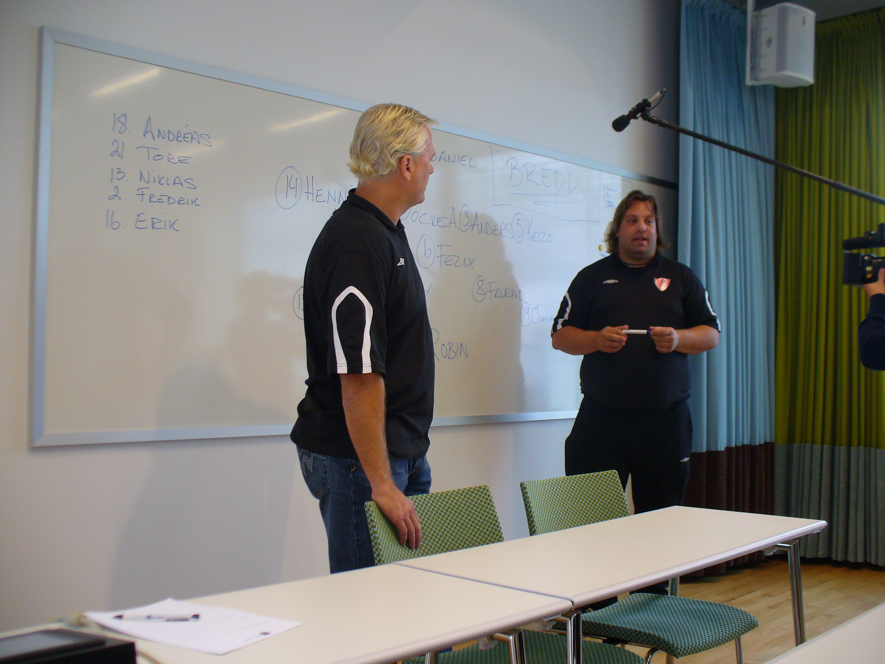 Glenn Hysén and Richard Lidberg instructing FCZ for game against FC Zulu